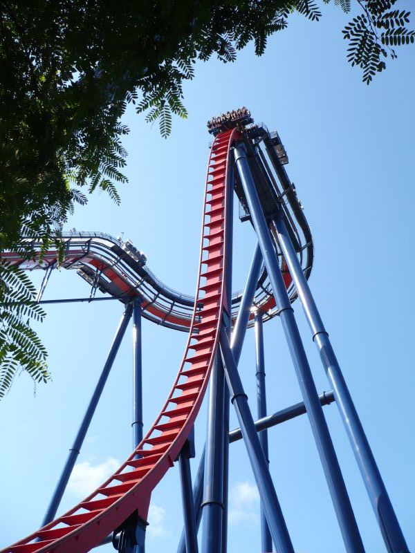 The main drop of Sheikra at Busch Gardens